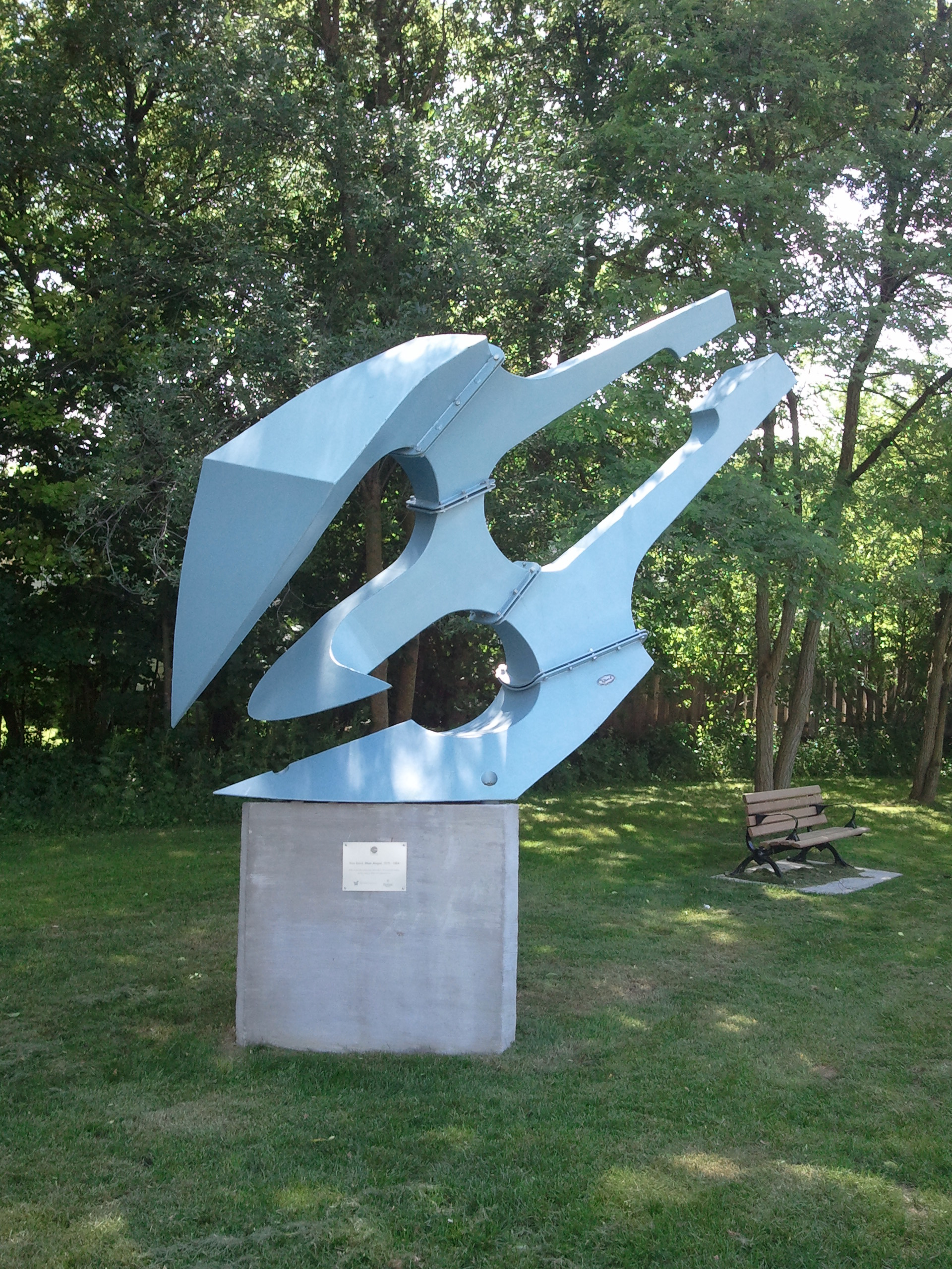 Blue Angel, sculpture on Stouffville Creek Trail, south of Main St., Stouffville, Ontario, June 29, 2011